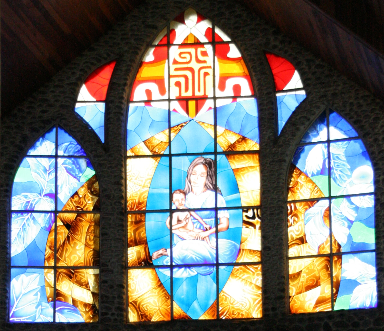 Stained glass in the catholic church of Vaitahu, Tahuata island, Marquesas Islands, French Polynesia.